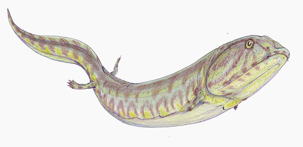 Crassigyrinus scoticus, by myself